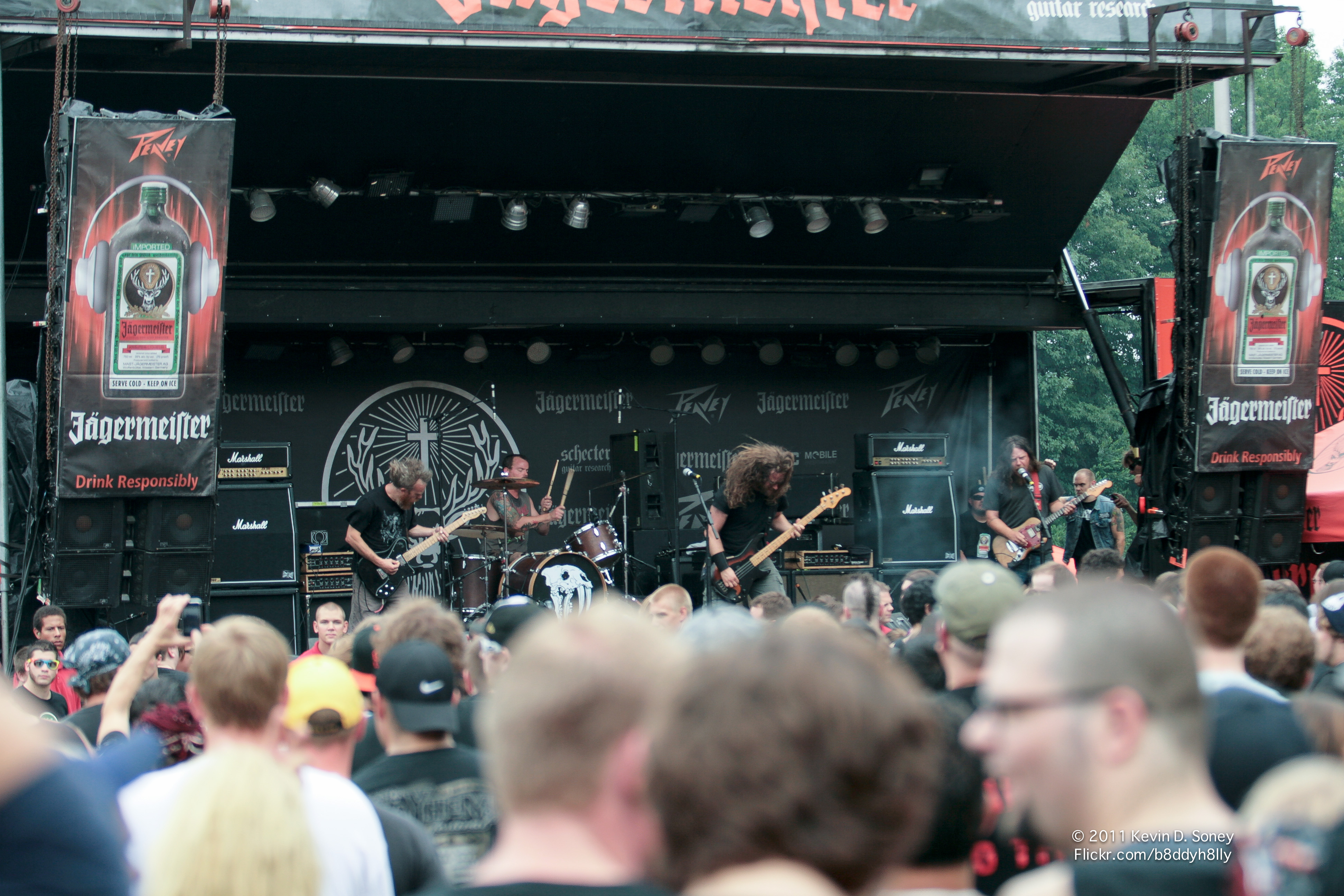 Red Fang at the Mayem Festival.